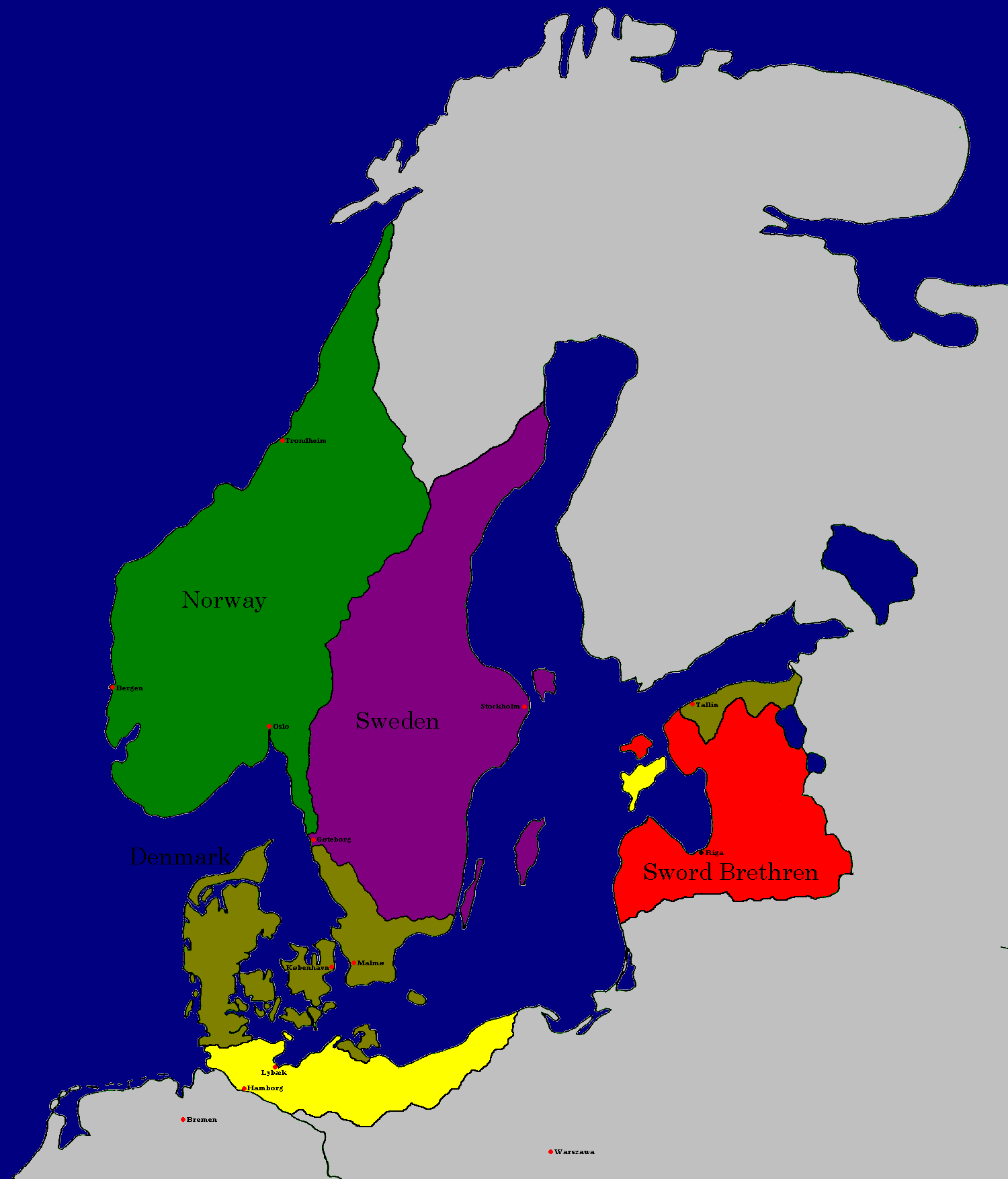 The realms of Denmark, Norway, Sweden and the Sword Brethren. In yellow; the conquered territories by Denmark in 1219. Created by Kasper Holl, 2005.